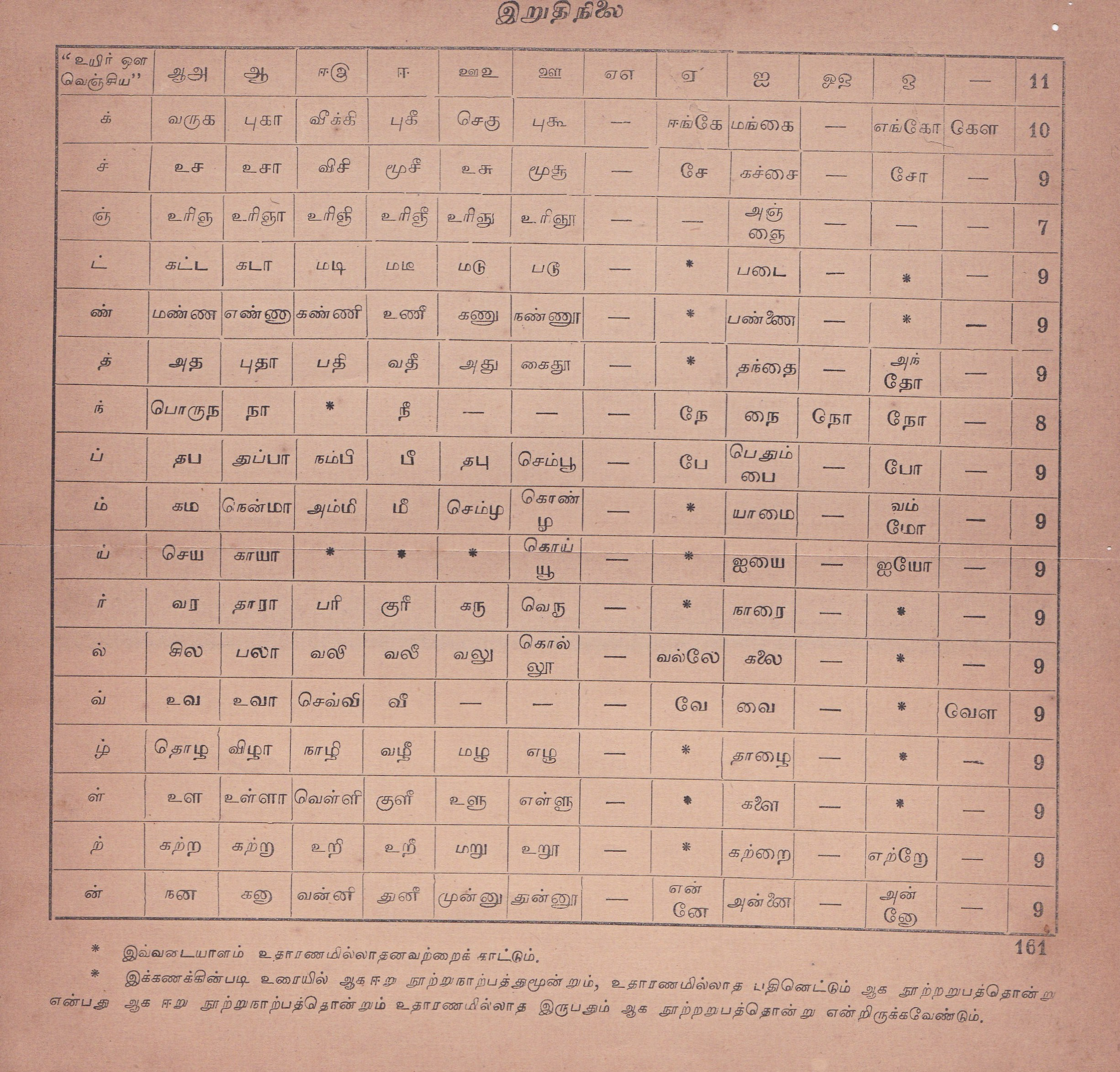 தொல்காப்பியம் காட்டும் மொழியிறுதி எழுத்துக்கள்